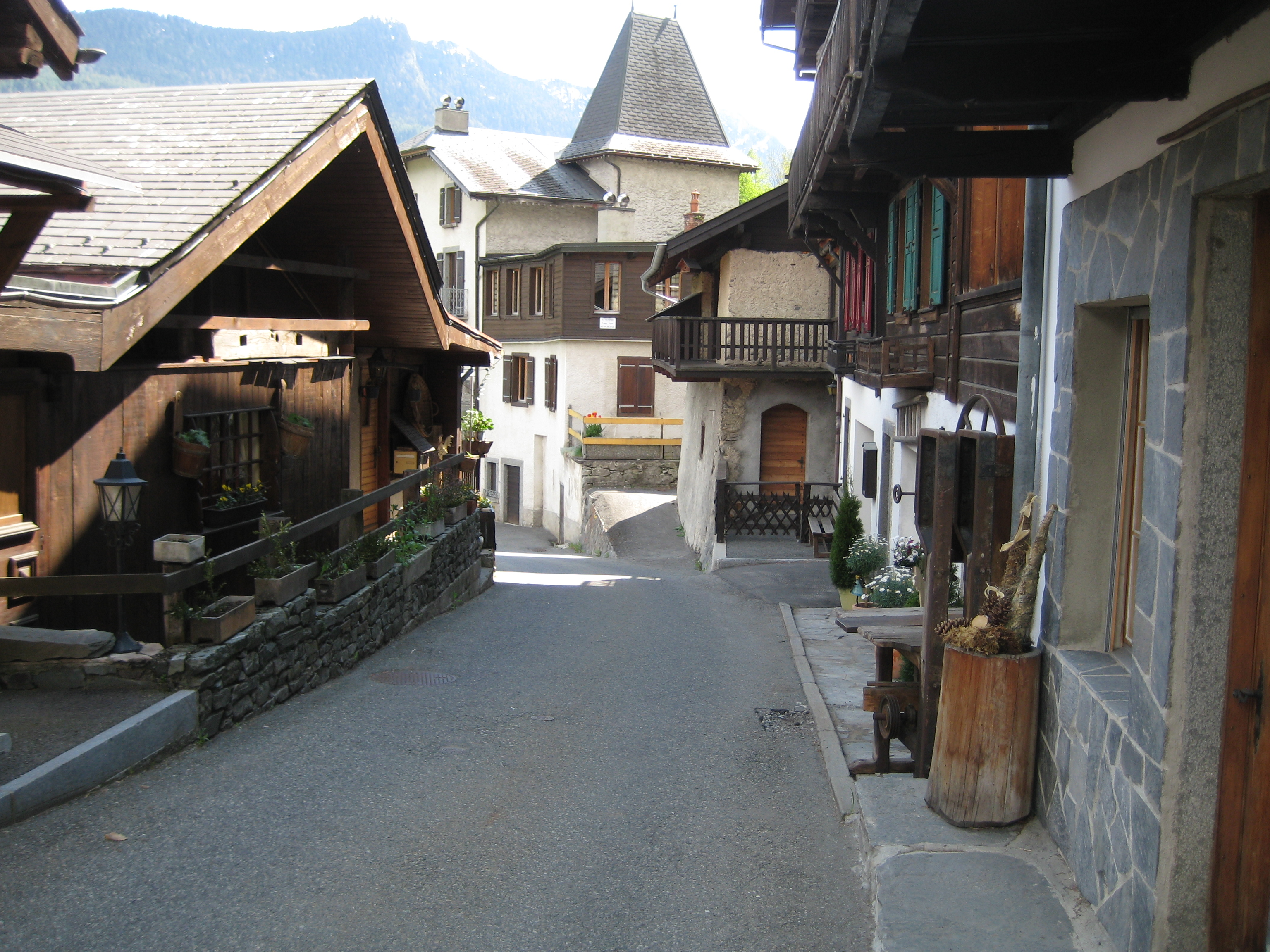 Small street in Salvan, Valais, Switzerland